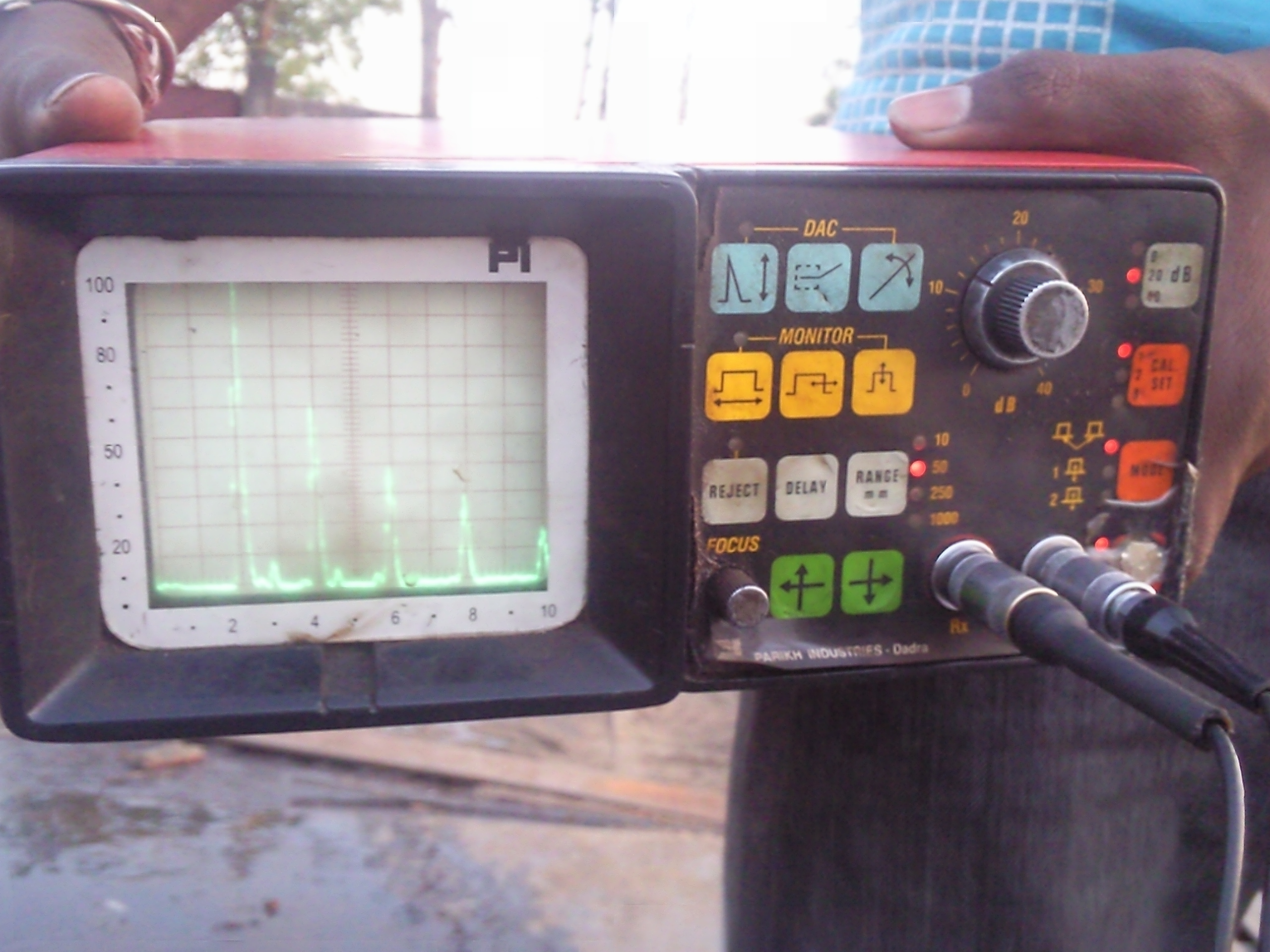 Ultrasonic Testing Machine showing readings, CRT Based Ultrasonic Flaw Detector used for purposes such as Welding Flaws, etc.